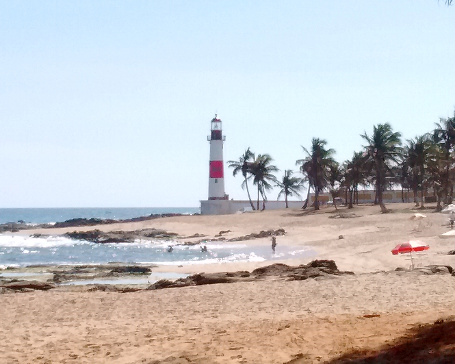 Itapua lighthouse in Salvador, Bahia, Brazil